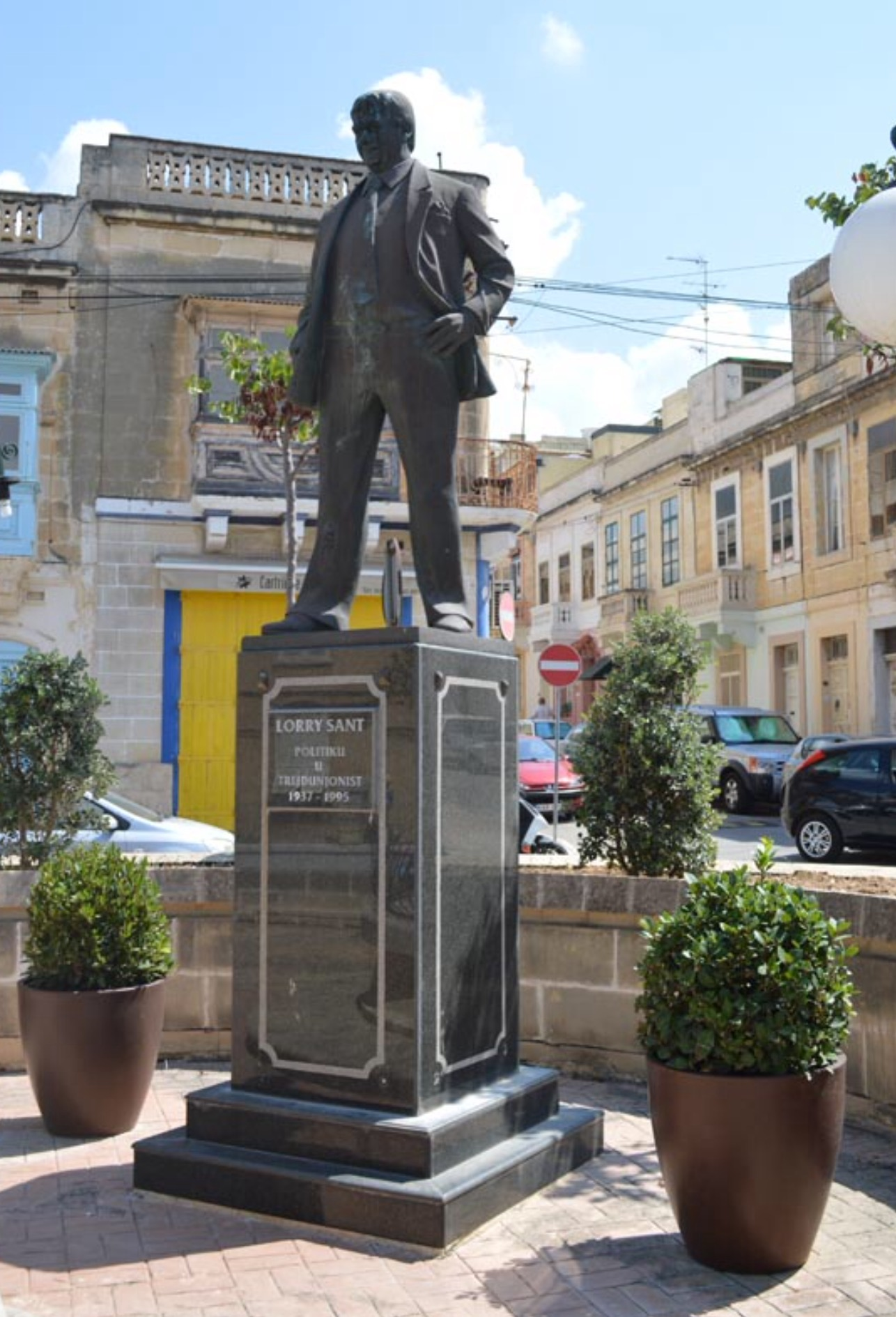 Lorry Sant public monument